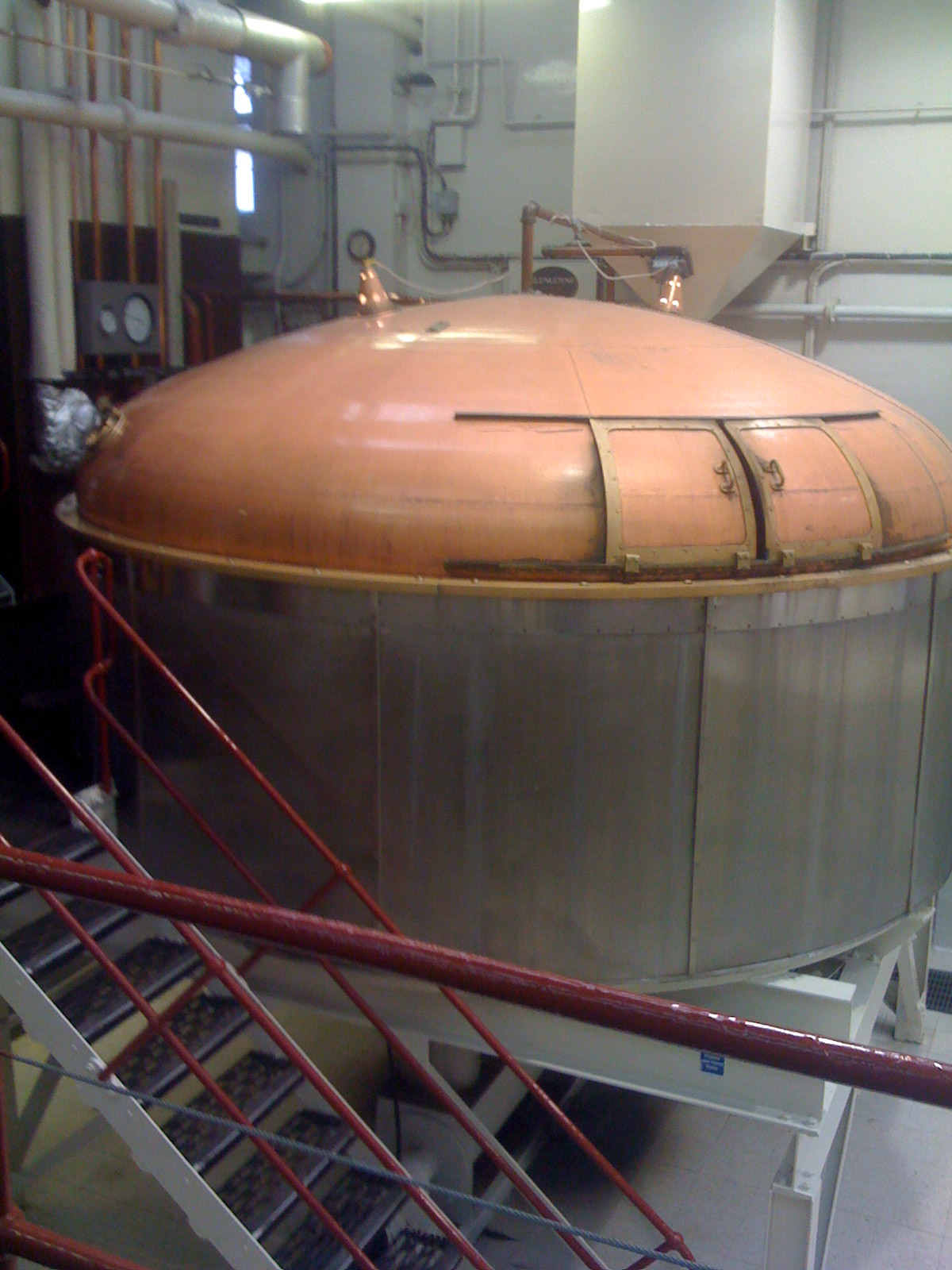 Mash Tun at Glengoyne Distillery